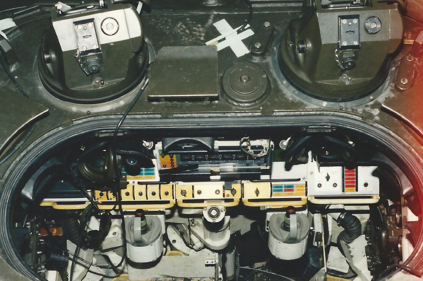 view into the SPAAG Gepard from top